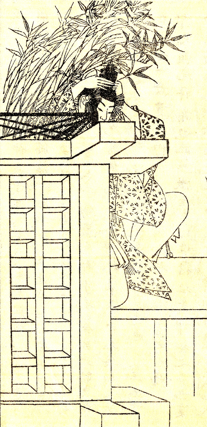 Fujiwara no Sanekata(藤原実方) was a Japanese poet and court noble in Heian period.This Picture was drawn by a japanese-style painter,Kikuchi Yōsai.